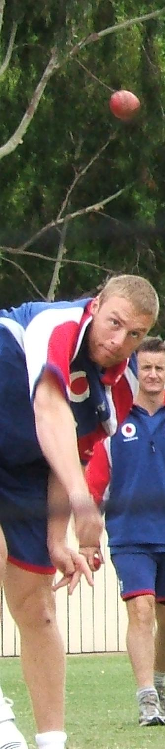 Andrew Flintoff bowling in the nets at Adelaide Oval